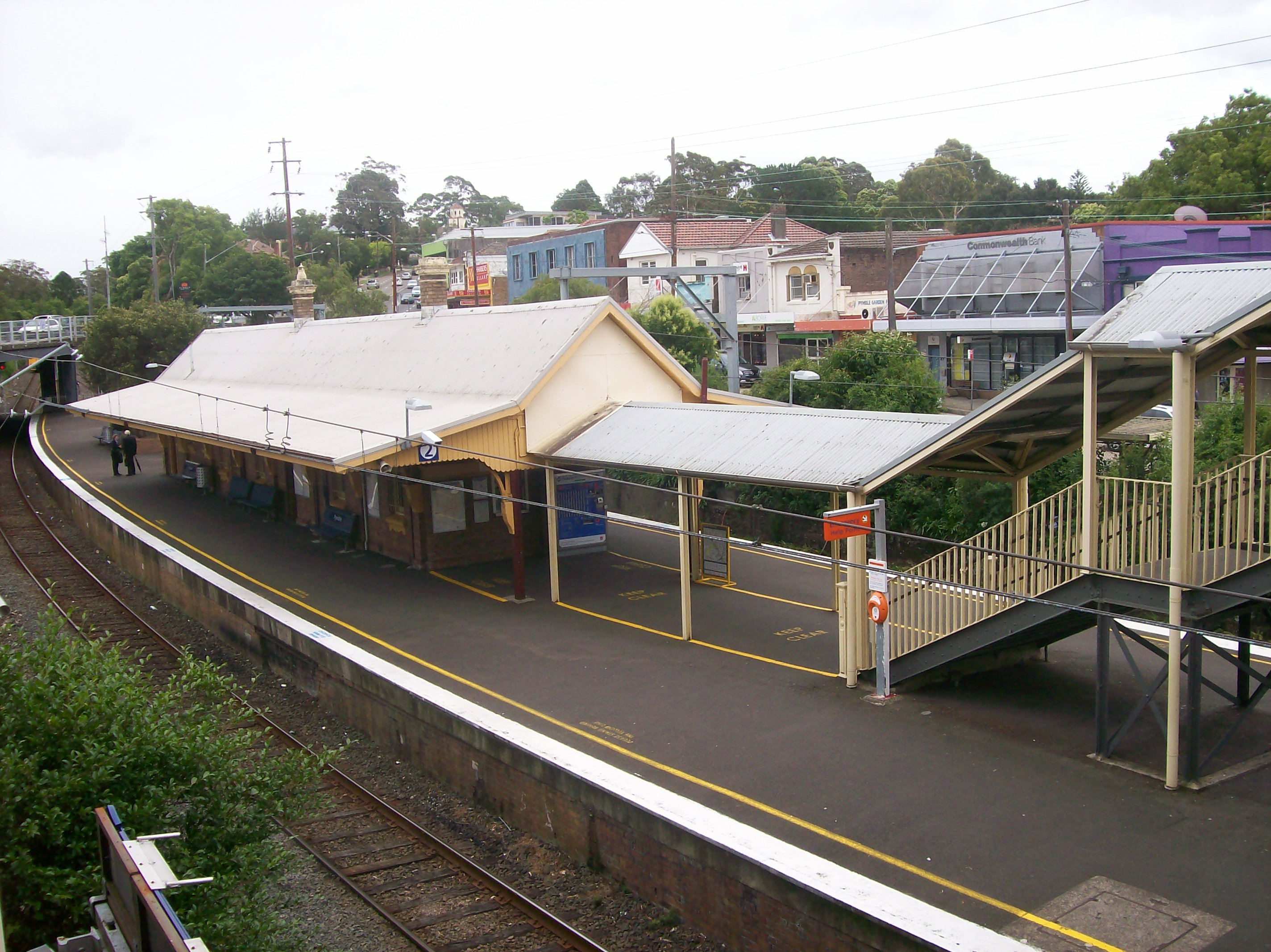 Pymble Railway station